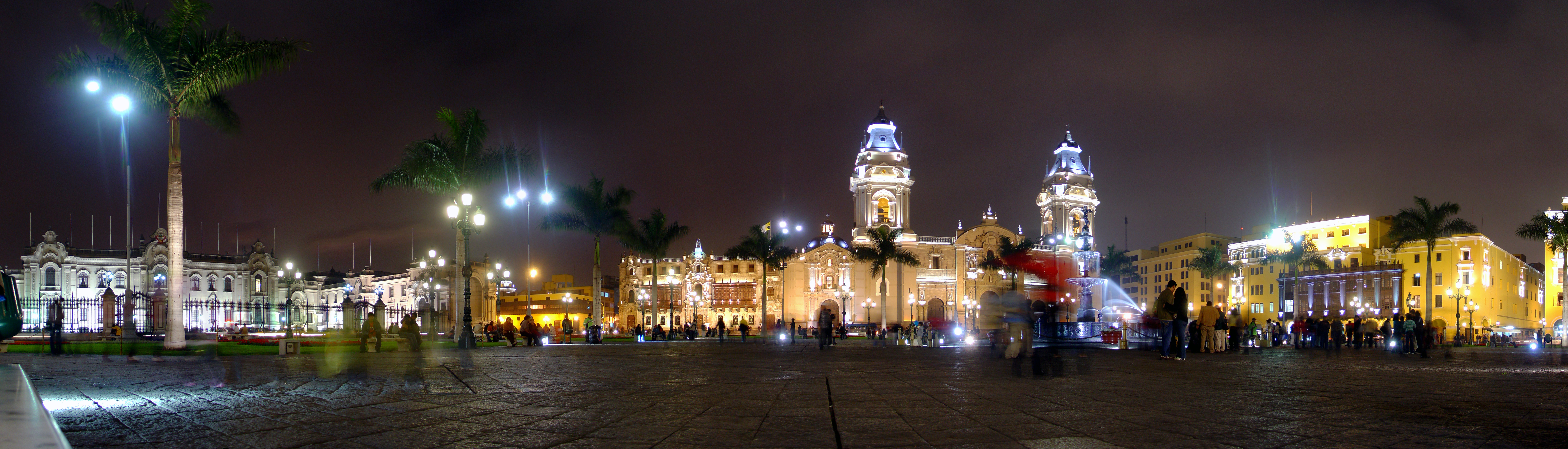 Please, have this description accessible to all by translating it in different languages.